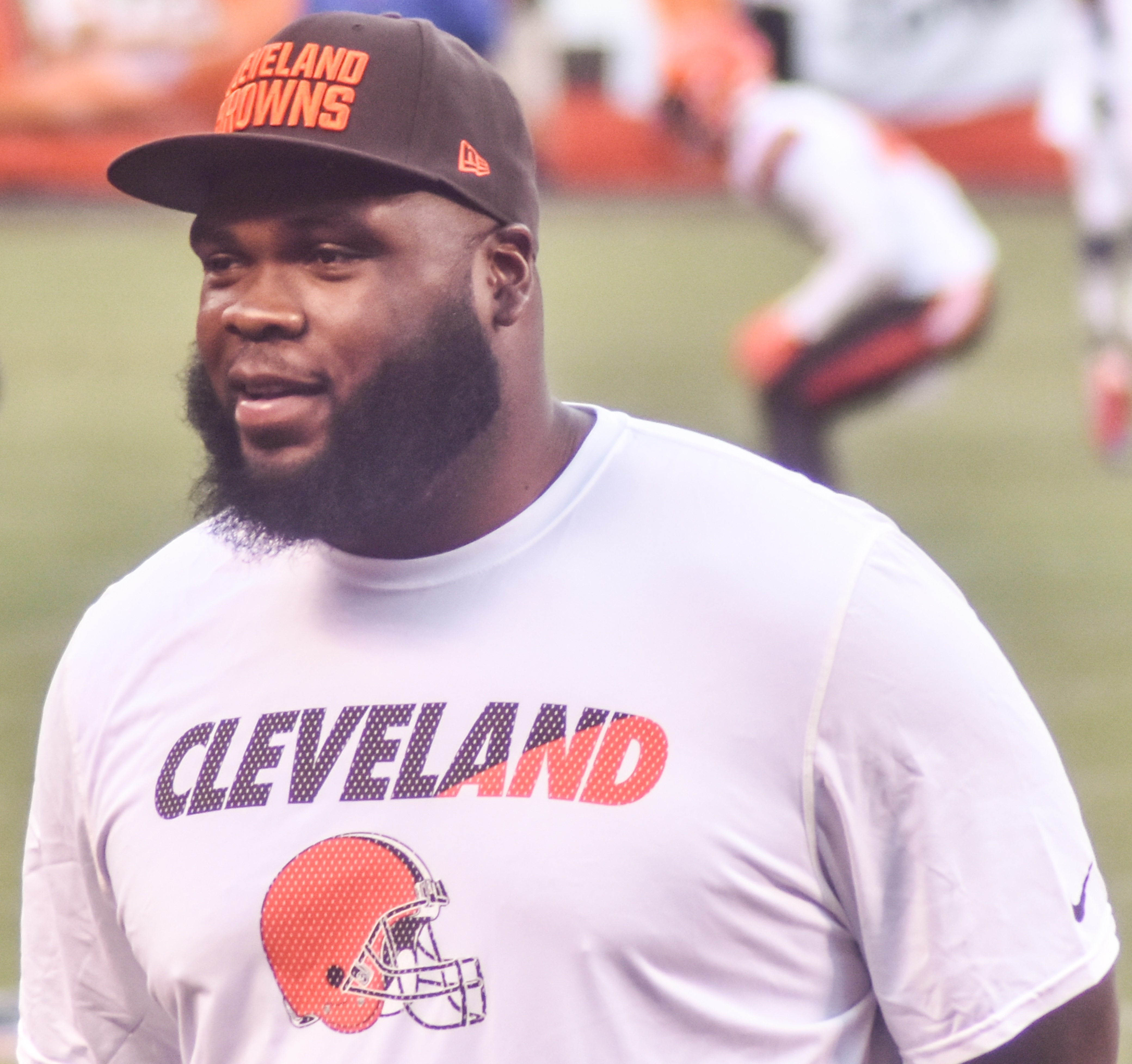 Browns vs Bills